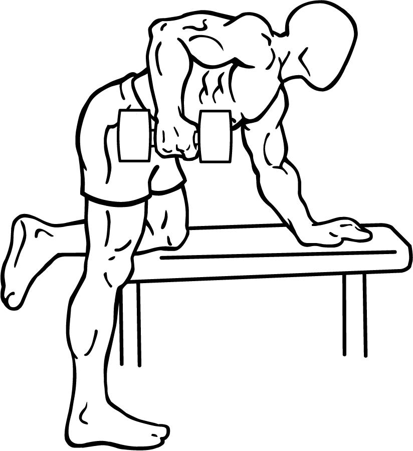 an exercise of shoulder